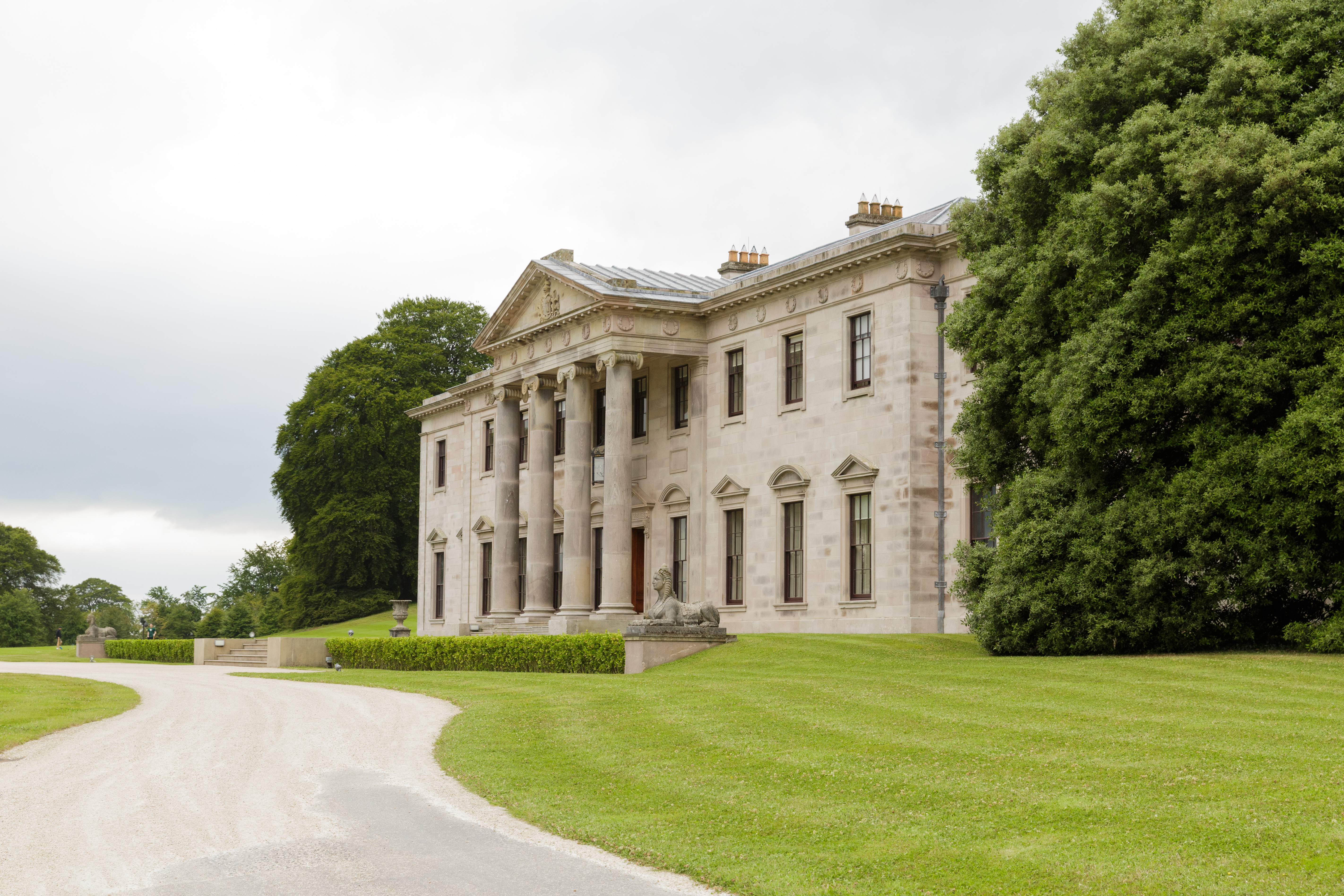 The house of Ballyfin Demesne in Ballyfin, Ireland, built in the 1820s by Sir Charles Coote, 9th Baronet